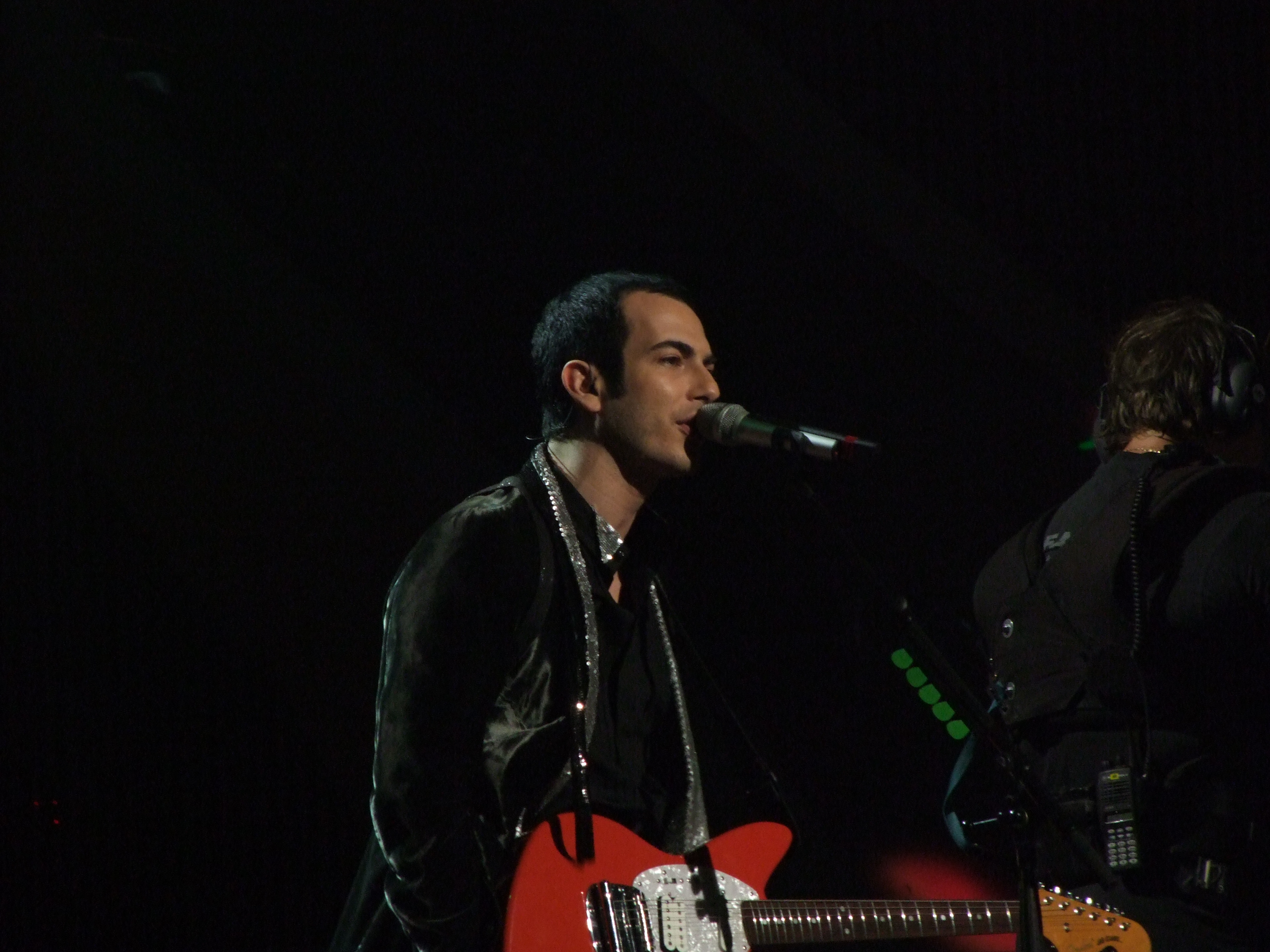 Mor ve Ötesi in the 2nd semi-final at the Eurovision Song Contest in Belgrade